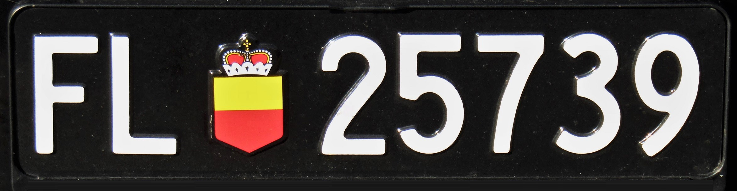 Liechtenstein front license plate